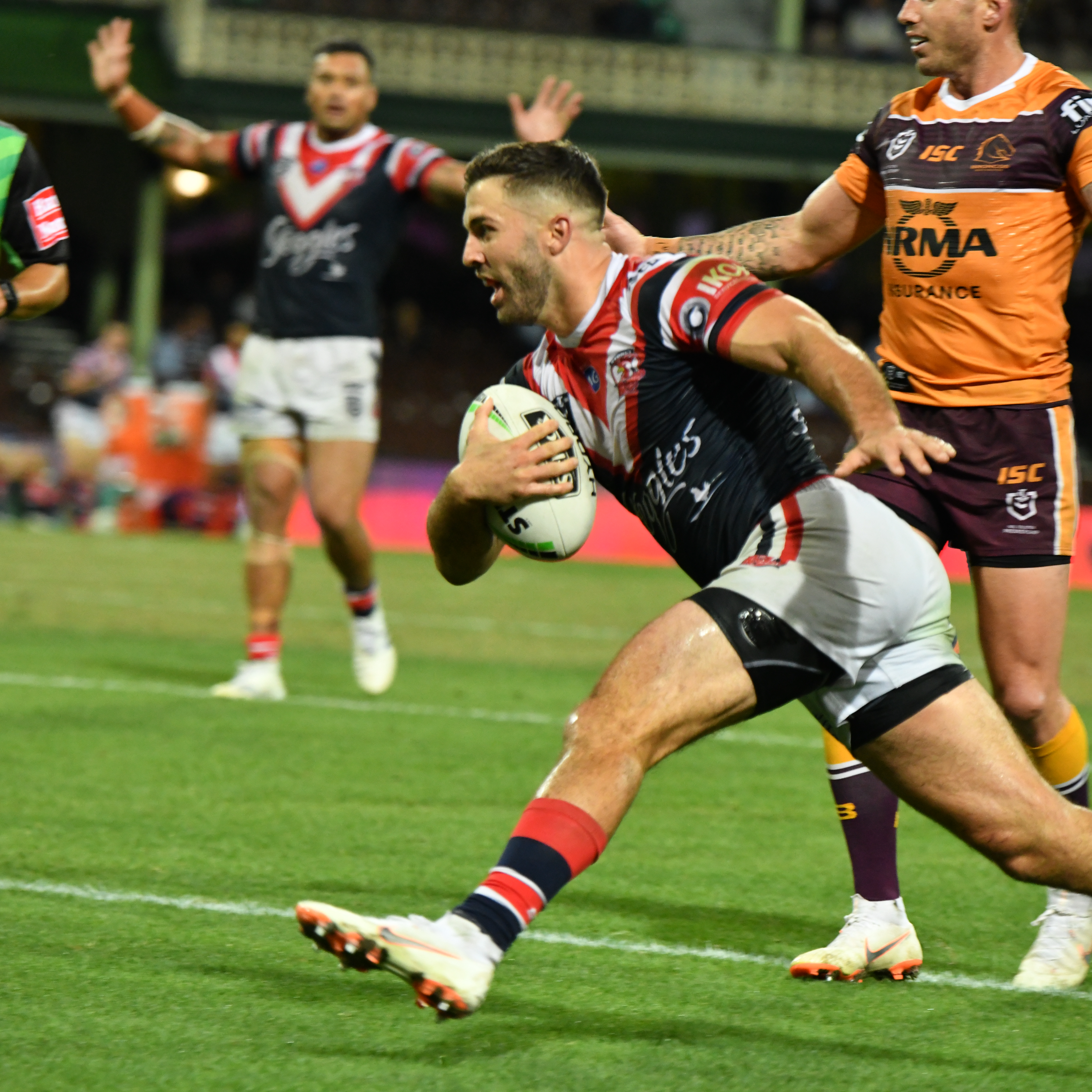 James Tedesco